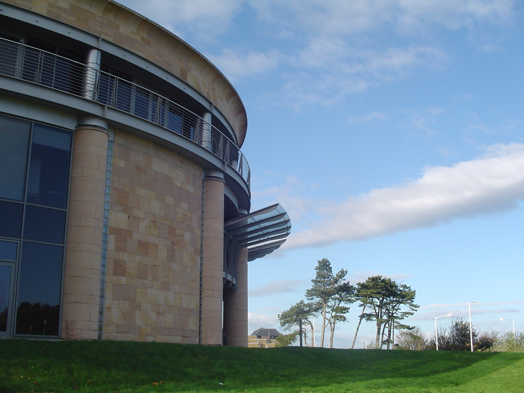 University of St Andrews, Gateway building